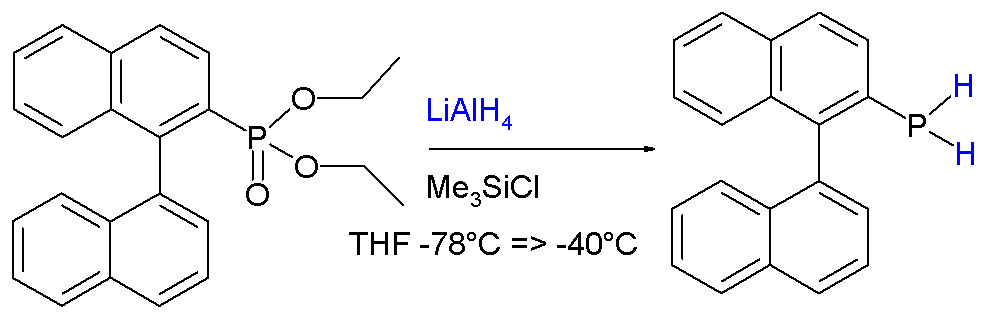 Phosphane Stability